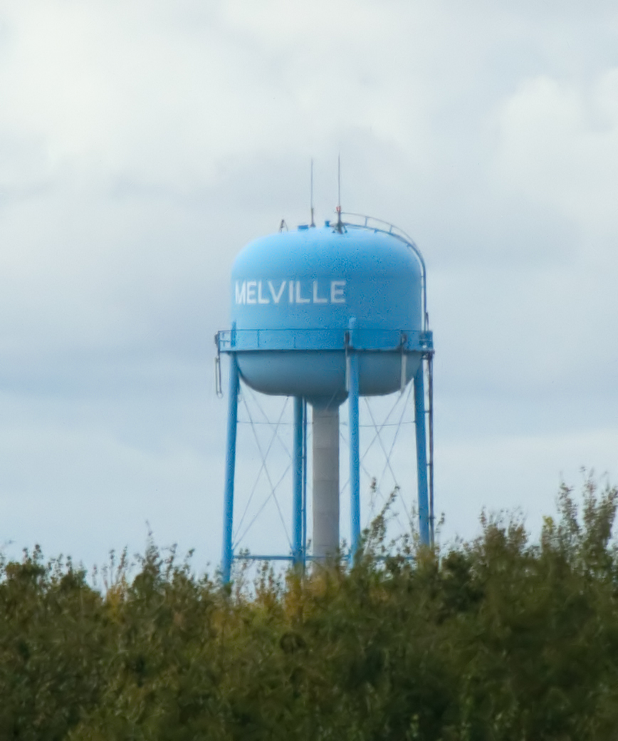 On the Train from Toronto to Edmonton